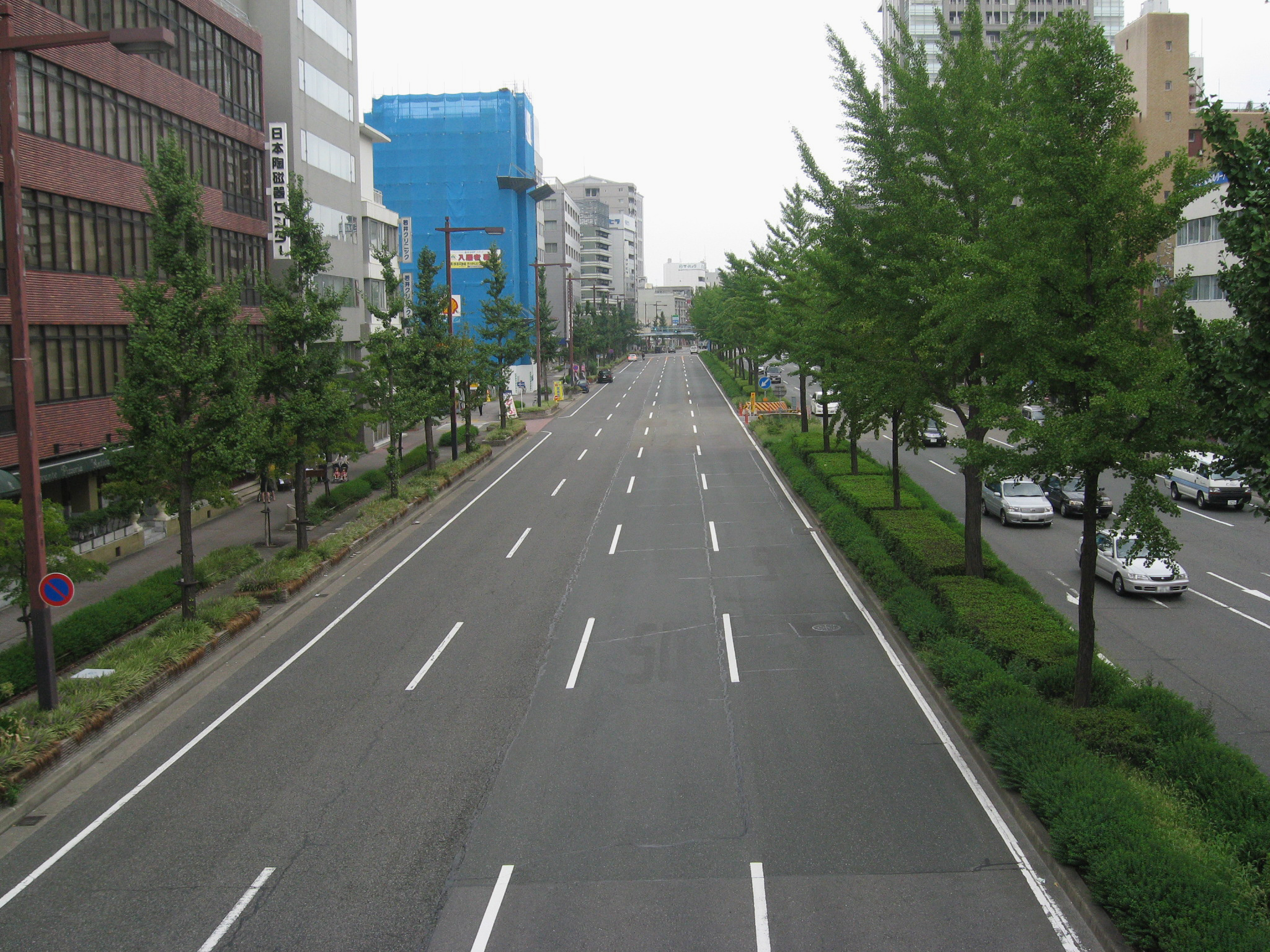 The Sakura-dori avenue in Higashi-ku, Nagoya City, Japan